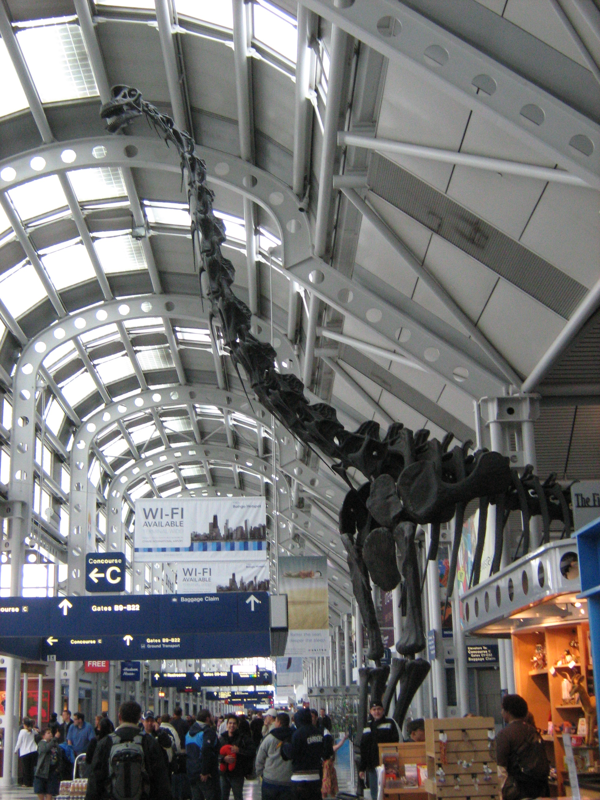 Mounted cast of Brachiosaurus altithorax in O'Hare International Airport Terminal 1, Chicago, IL, USA.